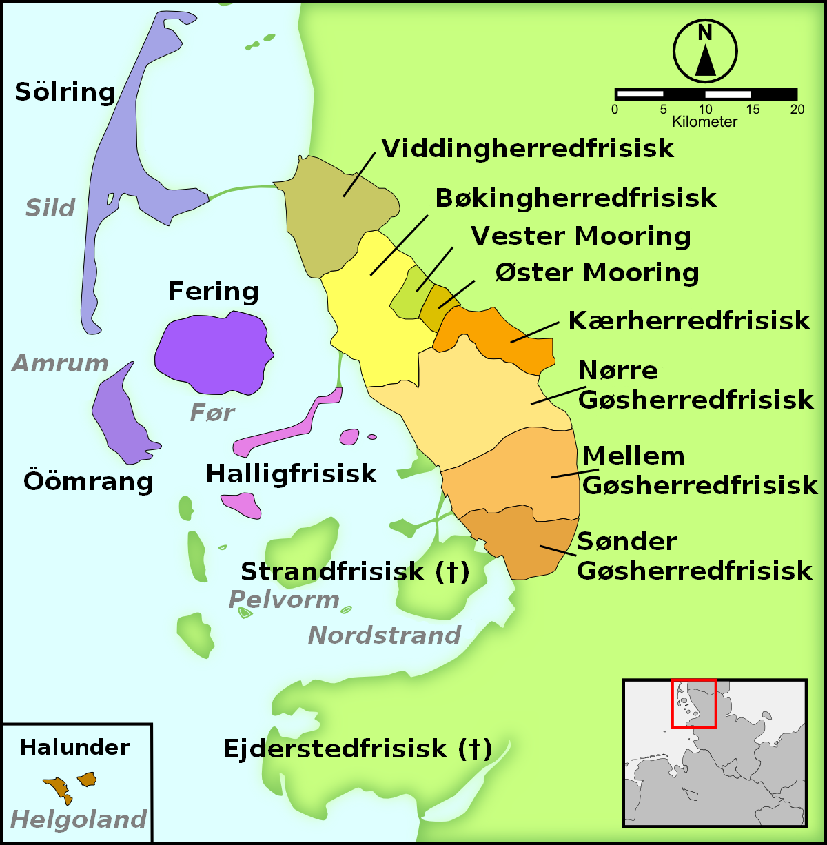 Map showing the distribution of North Frisian dialects (Danish translation)